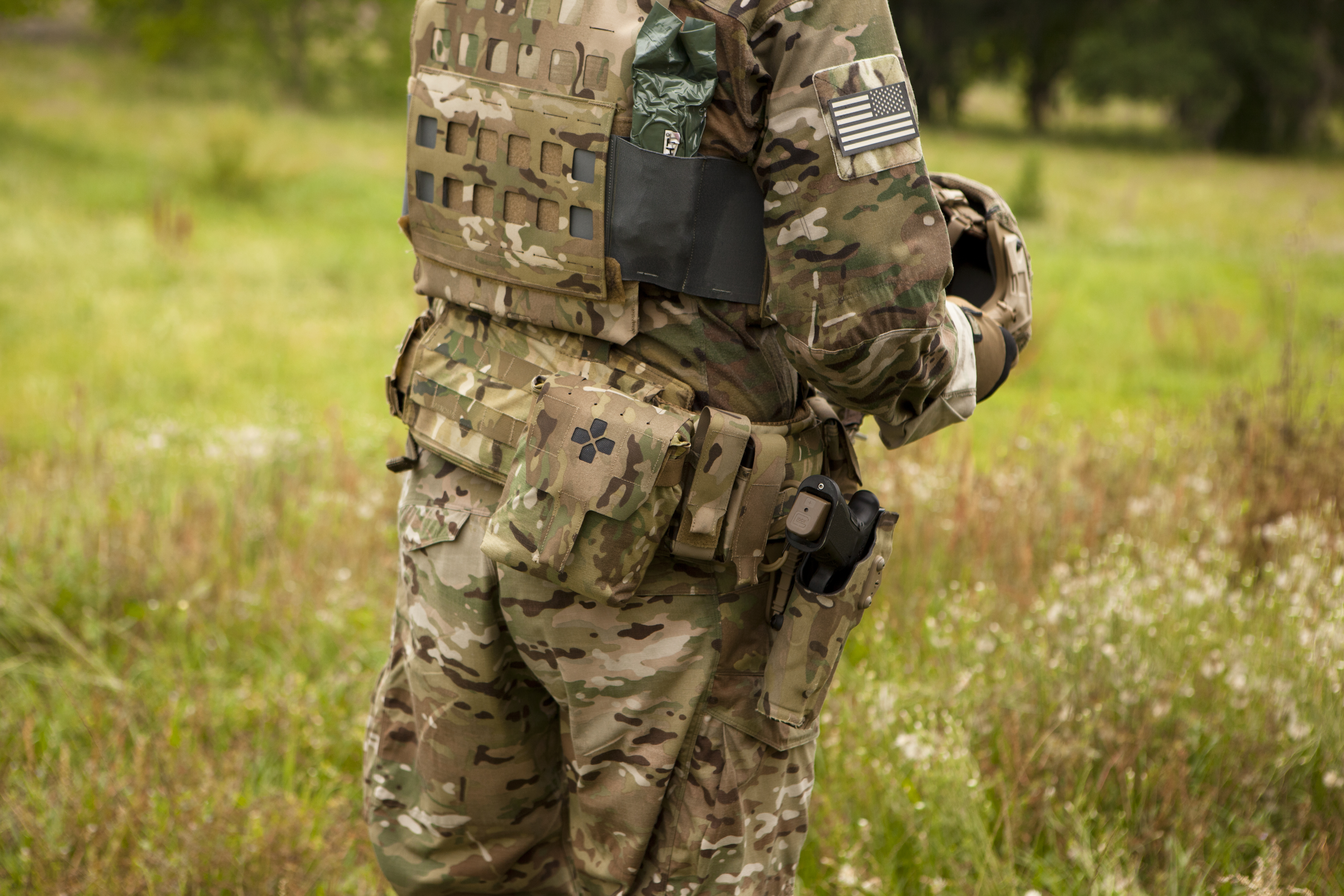 A soldier wearing Blue Force Gear.